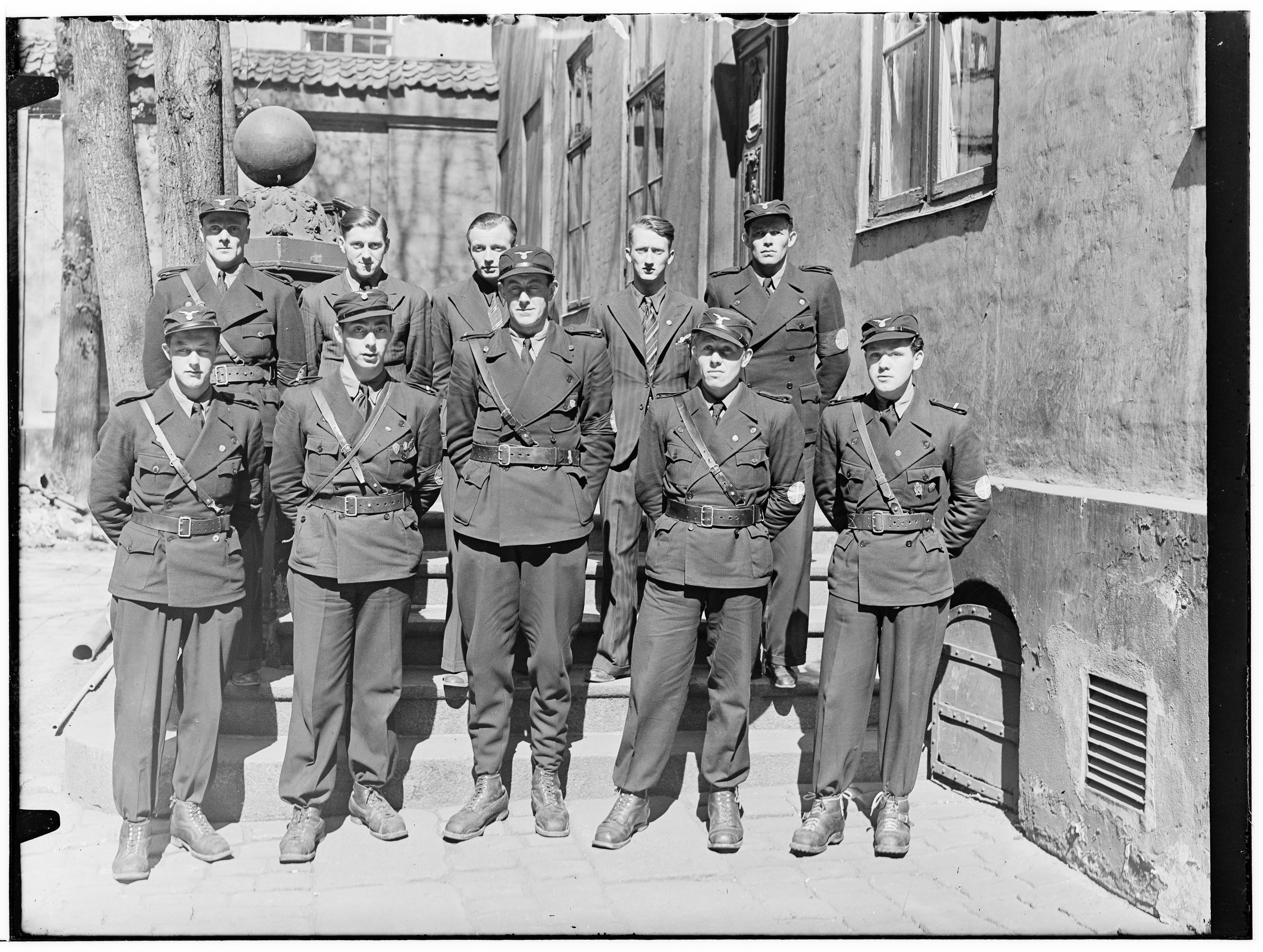 Members of the Hirden, a uniformed paramilitary organisation during the occupation of Norway by Nazi Germany, modelled the same way as the German Sturmabteilungen. Photo probably taken in 1940.